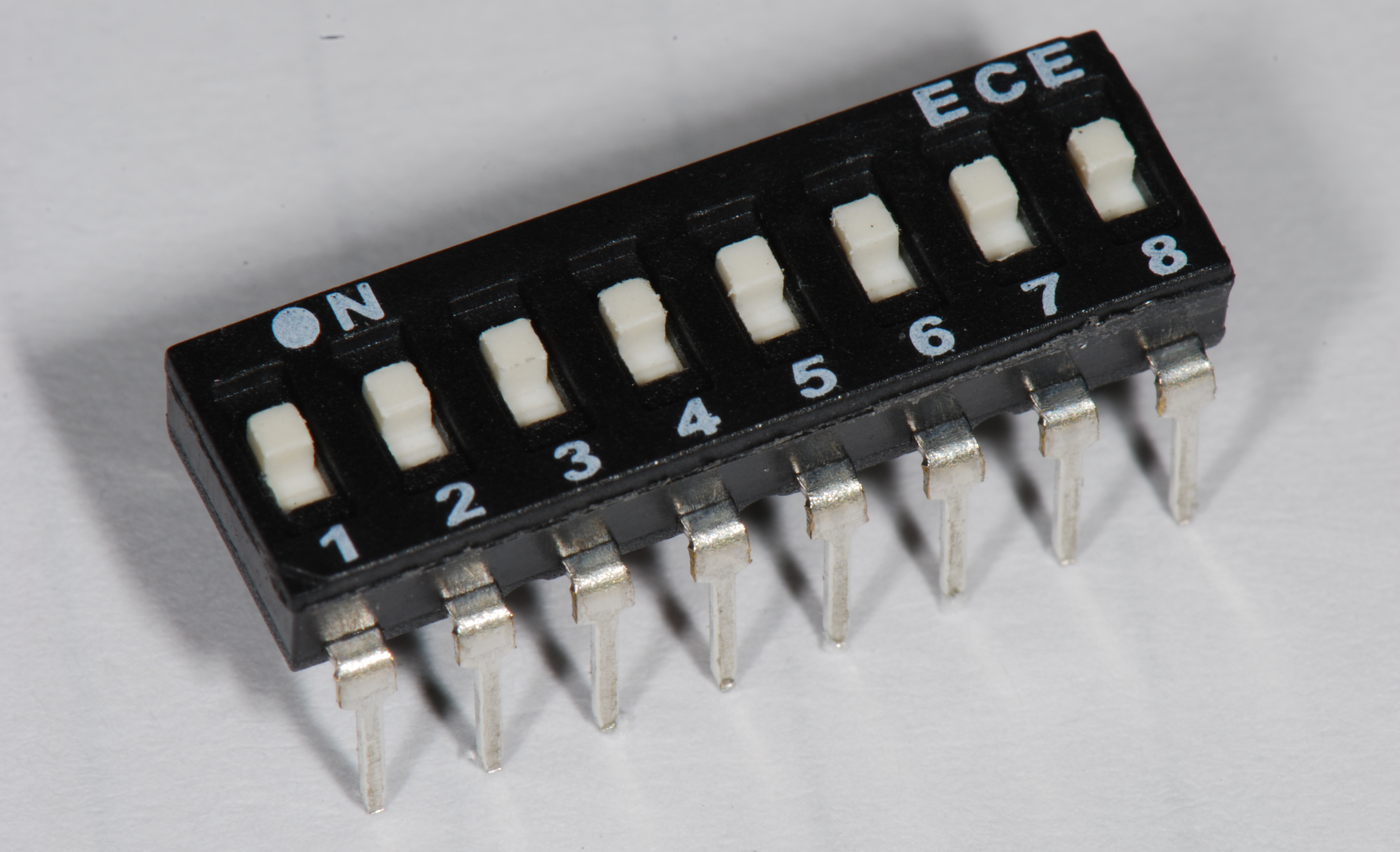 DIP switch